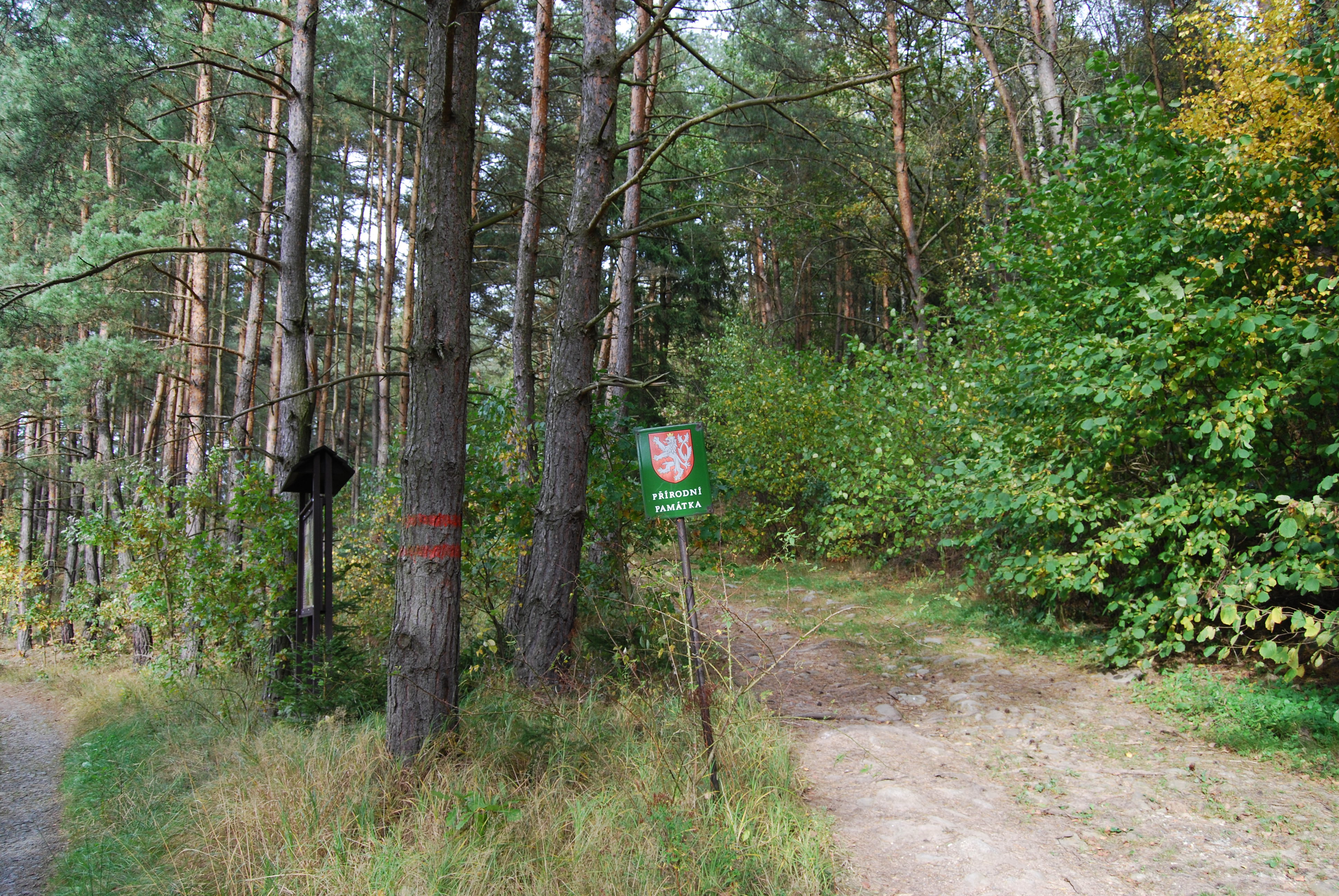 Natural monumet Bouřidla in northern direction from Čmelíny village in Plzeň-jih District. Czech Republic.